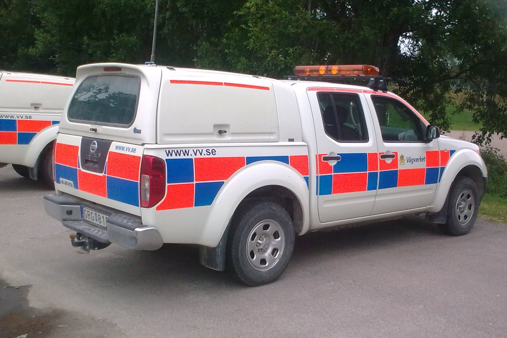 Swedish roadworker vehicle